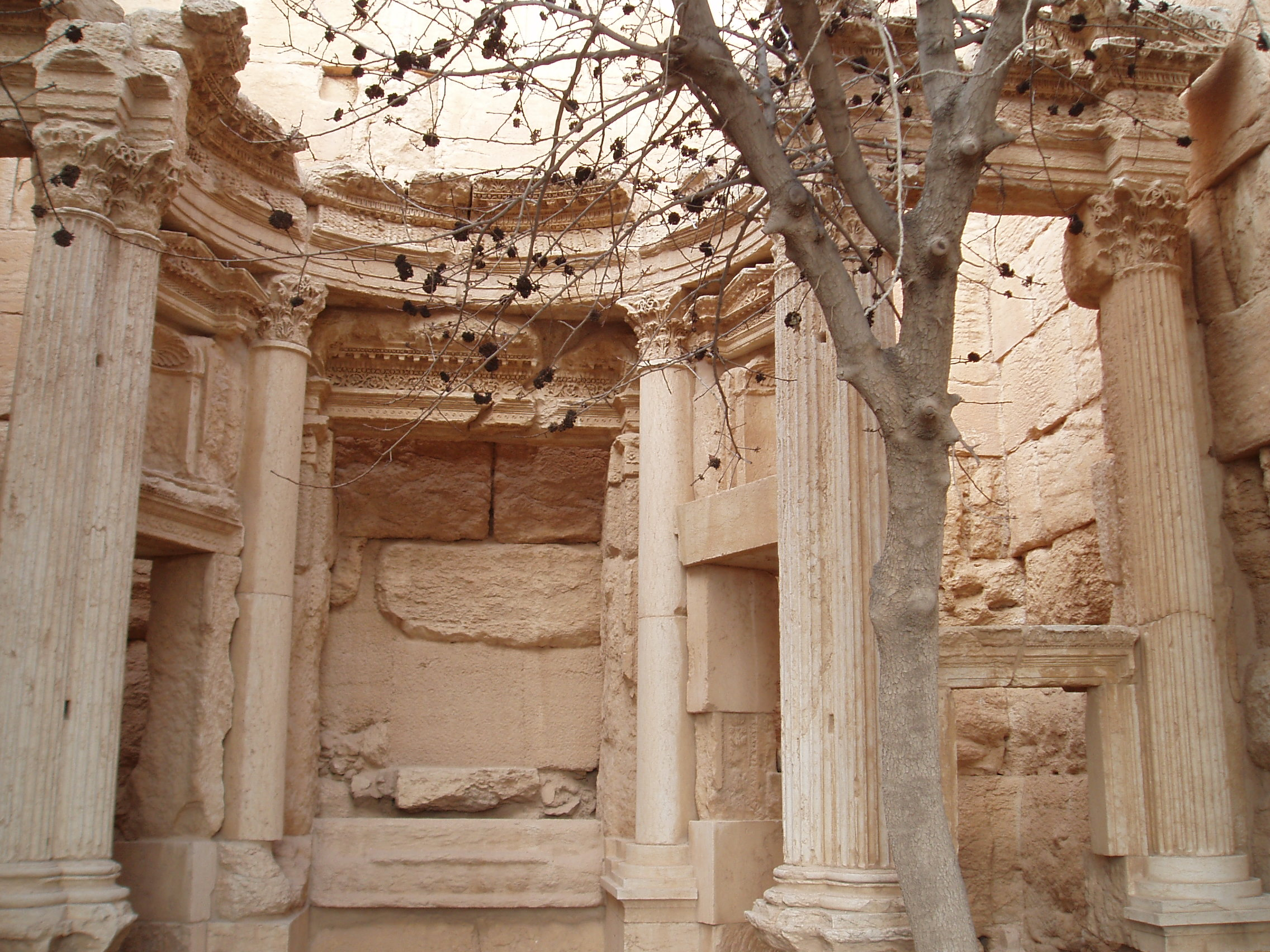 Inside the Temple of Baal Shamin